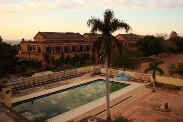 The picture of the Scindia School (Gwalior) taken from the top of one of the boarding houses (Jayaji) on the school campus.